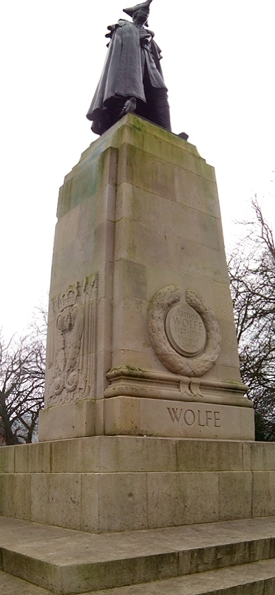 James Wolfe, Royal Observatory, Greenwich, UK, january 2015